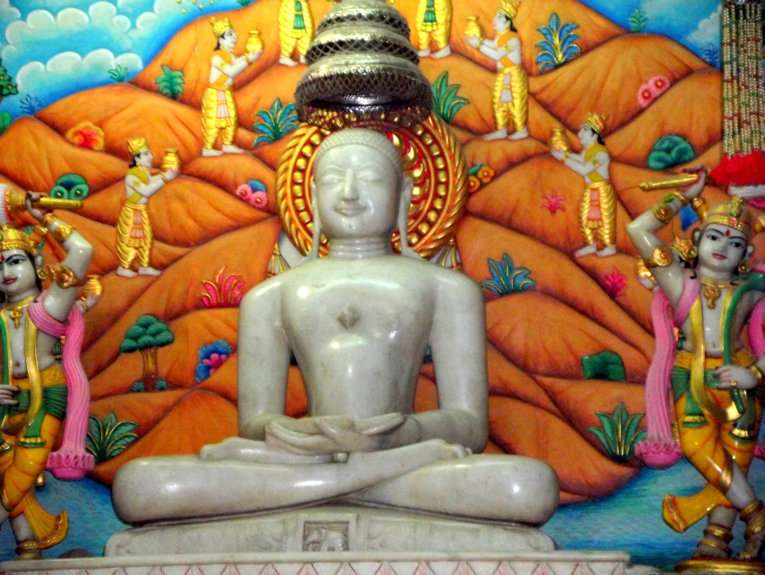 Bhagwan Ajitanatha (Mathura Chaurasi)